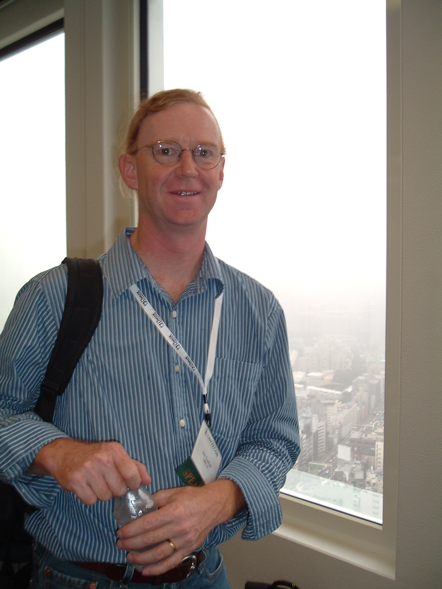 Jon Corbet, LWN writer